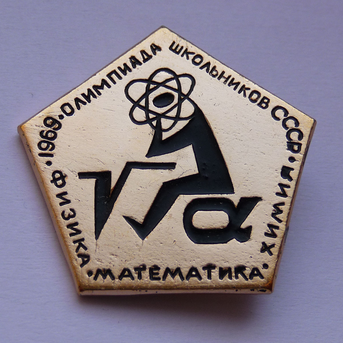 Badge of the participant of the all-Union mathematical Olympics. 1969.